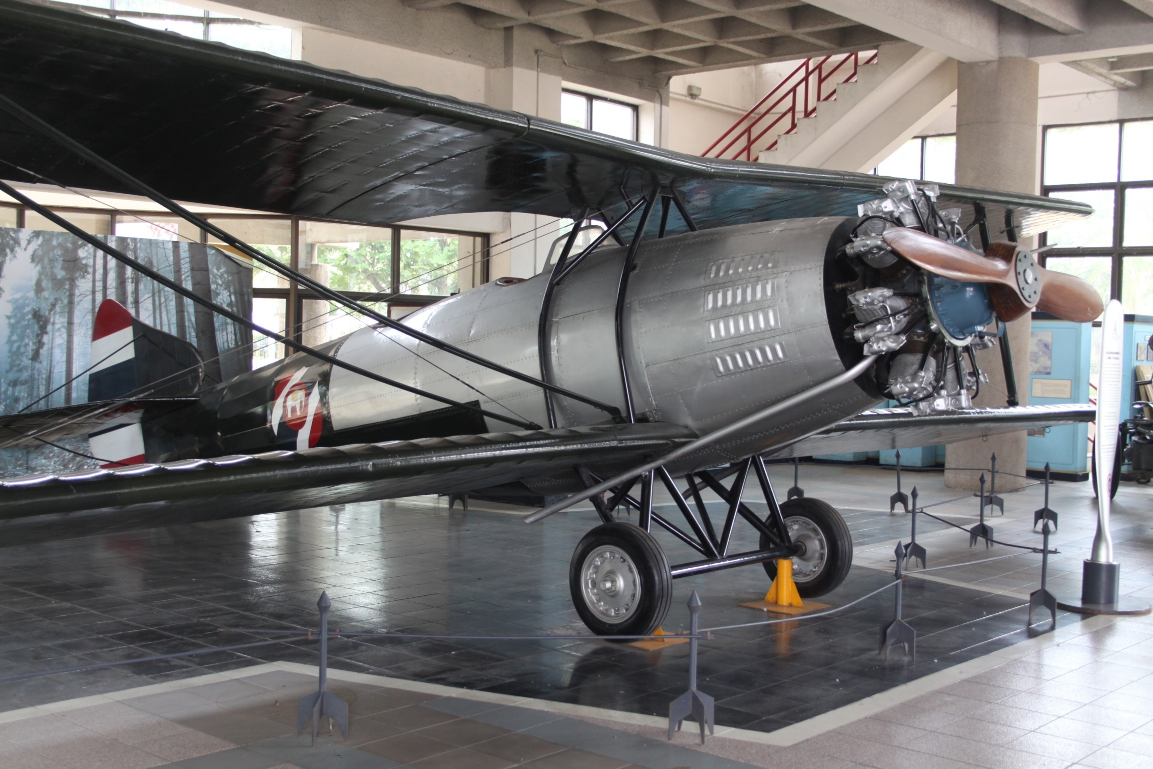 At Don Mueang International Airport